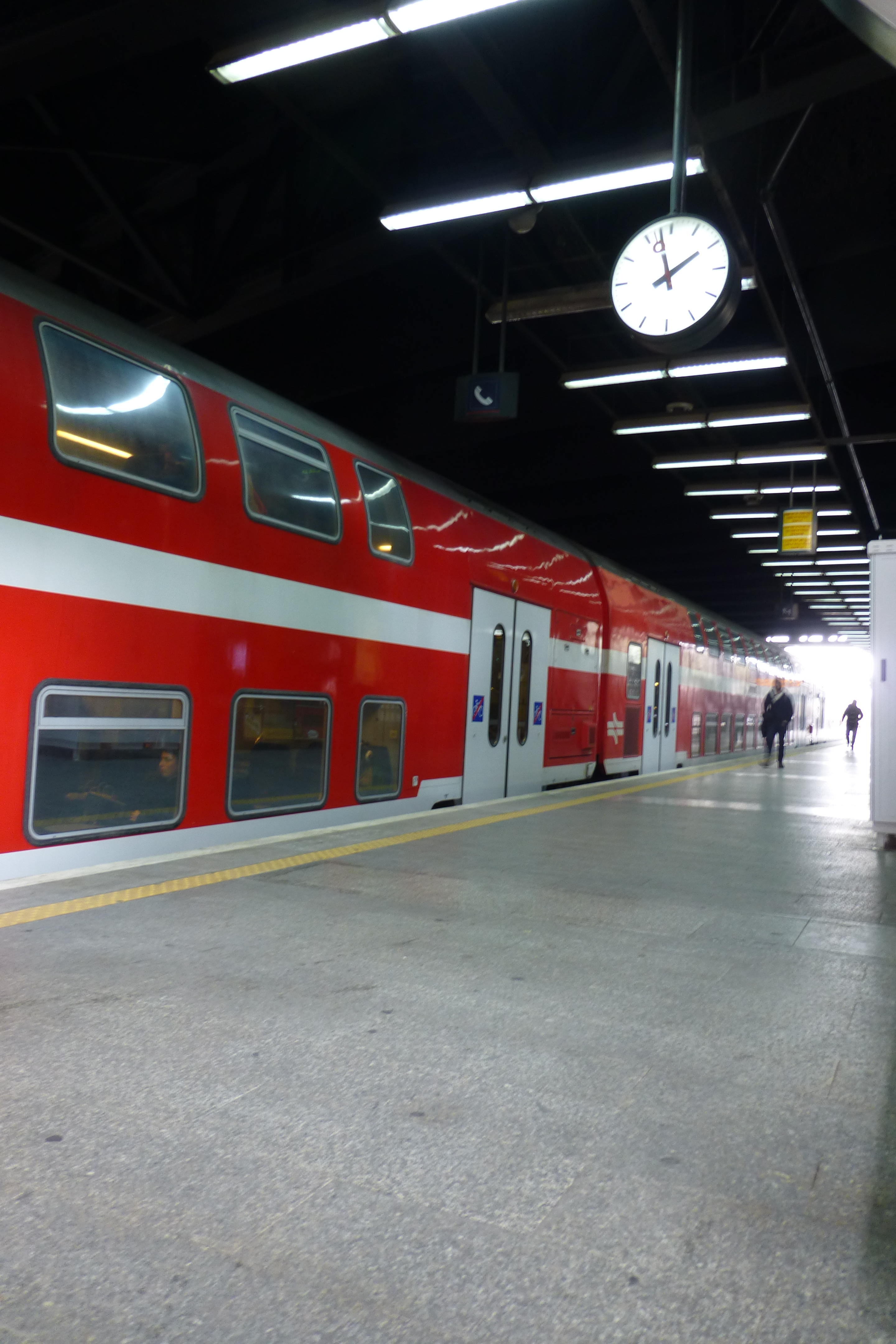 Tel Aviv HaShalom train station